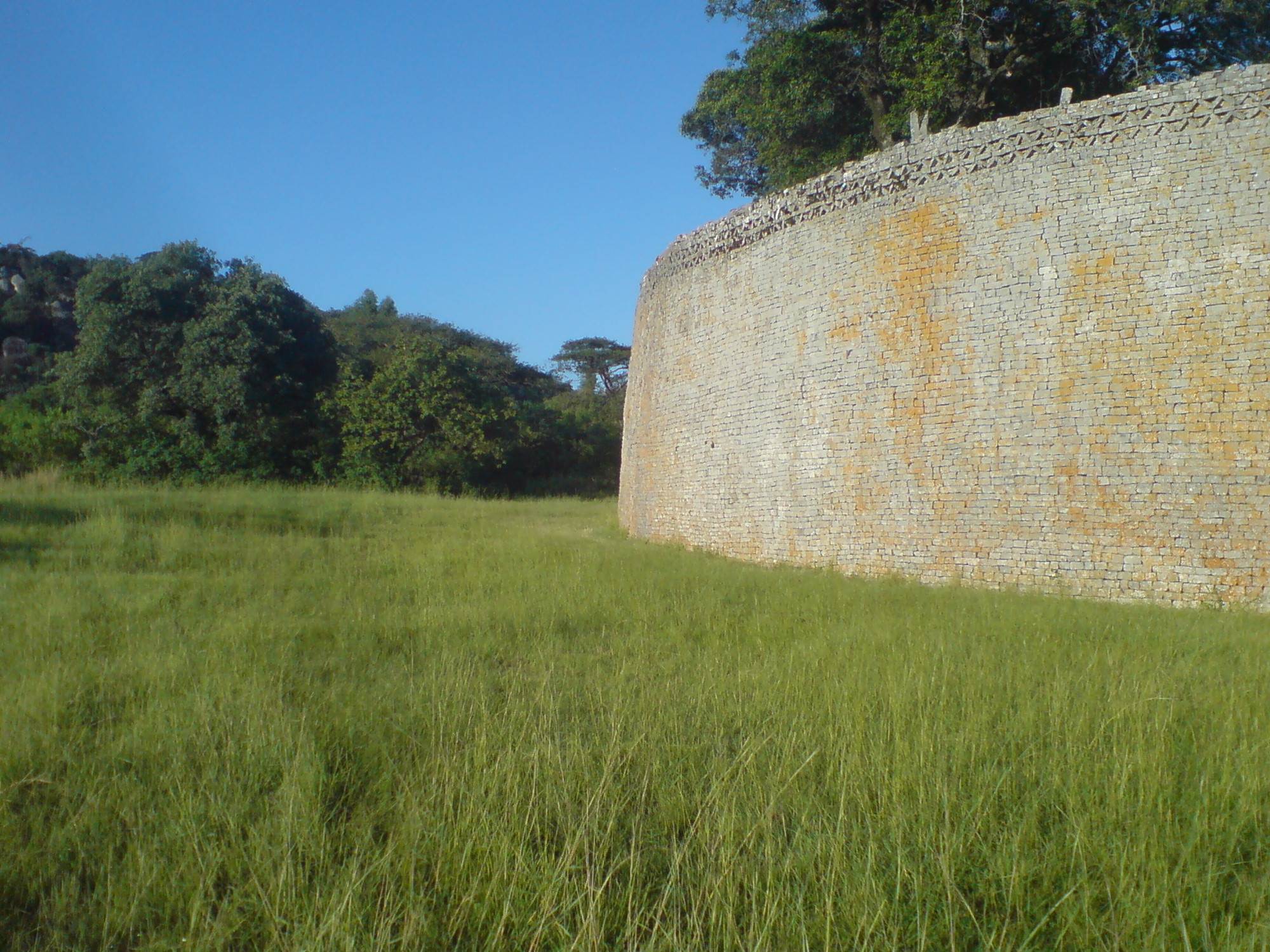 Outside view (close) of the wall of the great enclosure of Great Zimbabwe.